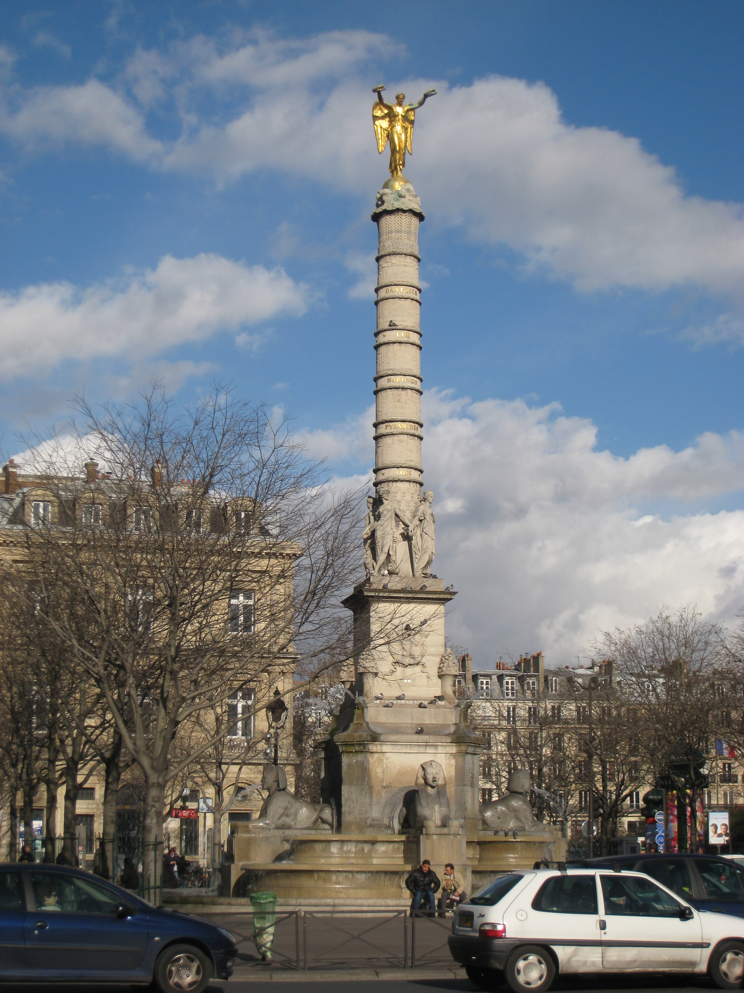 The Fontaine du Palmier in the Place du Châtelet, Paris, France. This work was created in 1808, and is thus free from copyright restrictions. Allegorical figures by Louis-Simon Boizot; sphinxes designed by Gabriel Davioud. .